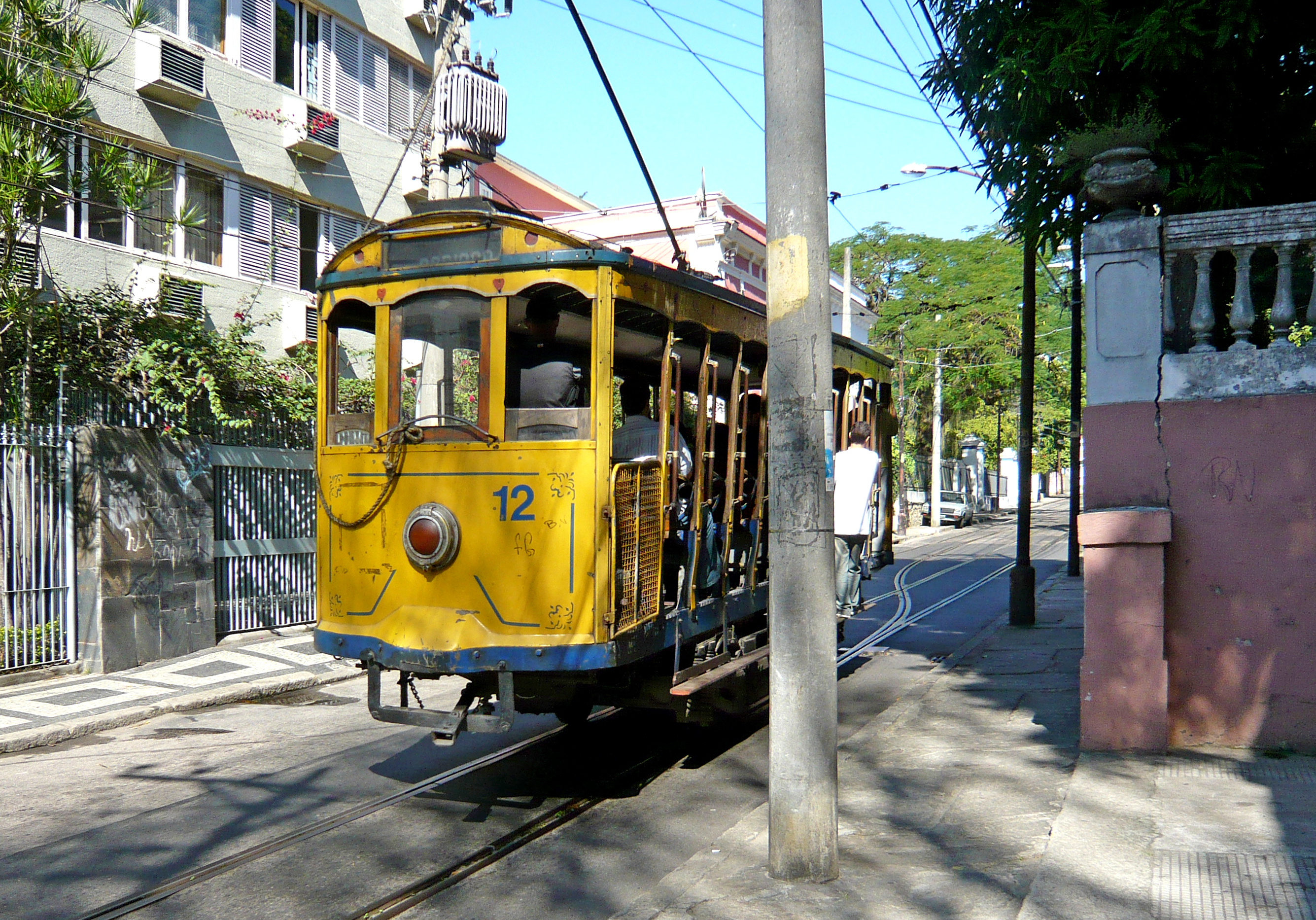 A tram [bondinho] in the Santa Teresa neighborhood of Rio de Janeiro, Brazil, outbound on the former (disused since 2011) Paula Matos line of the Santa Teresa Tramway in 2007. Car 12 is travelling southwestwards on Rua Monte Alegre just south of Rua Paschoal Carlos Magno and is leaving a section of bidirectional single-track to enter a section with double track.